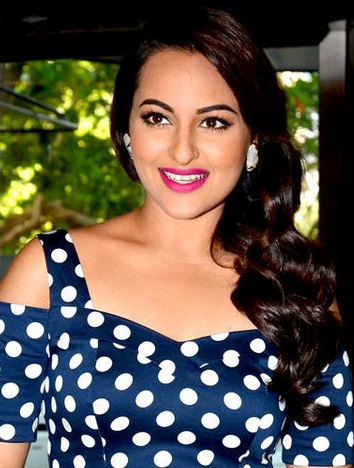 Sonakshi Sinha at Sonakshi & Manisha launch Women's Health & Prevention's latest issue